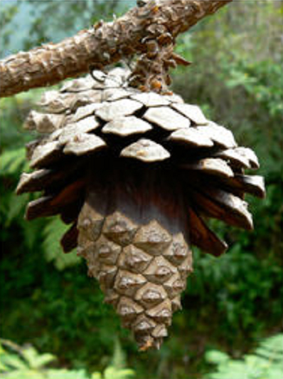 Cone of Pinus oocarpa